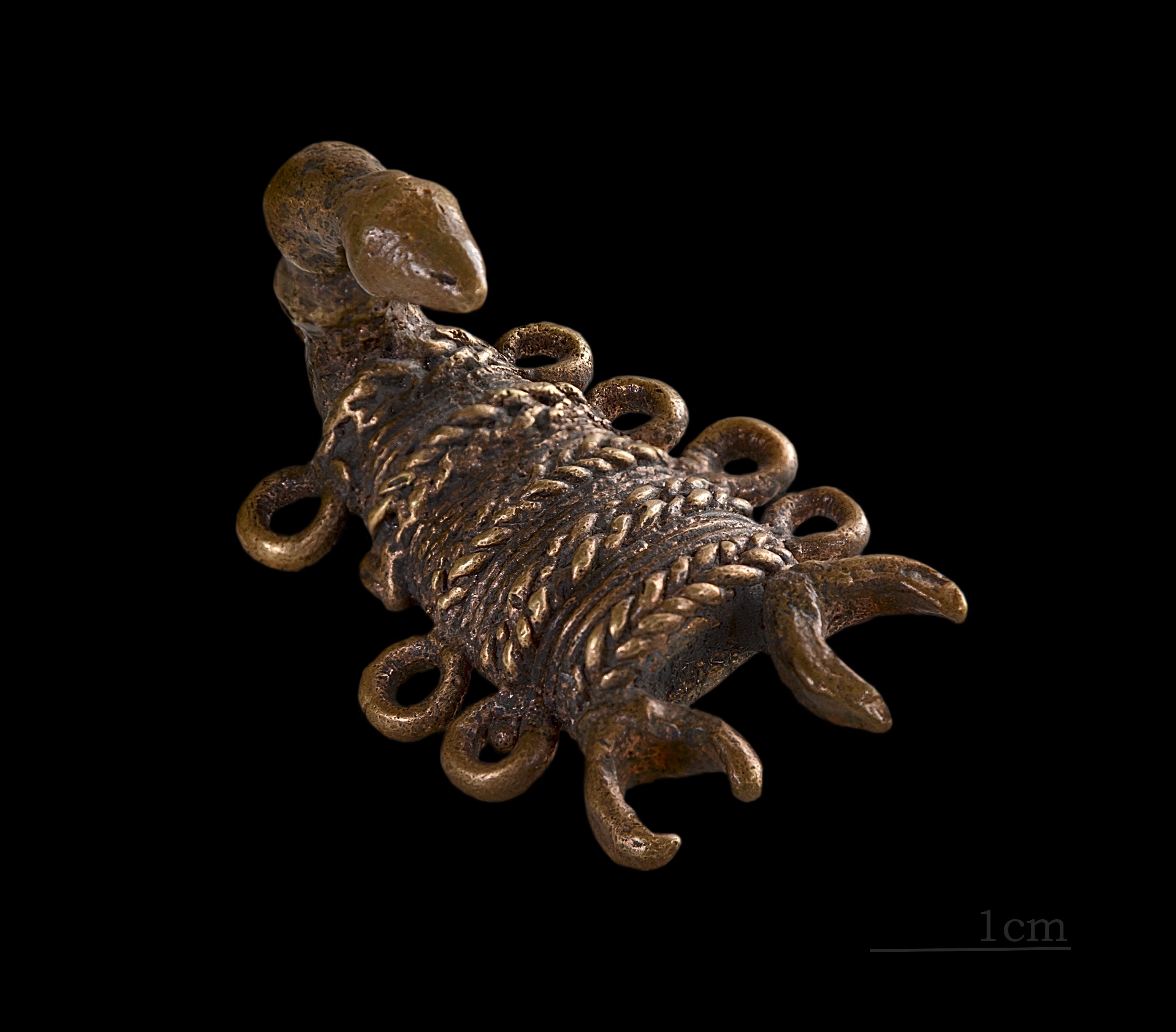 This peson is a multiple of the weight of the seed of Abrus precatorius (0.14 to 0.19 g) which was used as reference for any weighing. Gold was extremely important in the economic and political life of the Akan kingdoms of southern Ghana and Côte d'Ivoire. Until the mid-nineteenth century, gold dust was the primary form of currency in the region. In order to measure precise amounts of gold, an elaborate system of weights, usually made of cast brass, developed by the seventeenth century. Beyond the usual function, the weigh of gold, often refer to political power, reproducing in miniature regalia, and some virtues such as wisdom proverbs generally comment. Today, the national currency has replaced the precious metal and the system weight is no longer relevant since the early twentieth century.